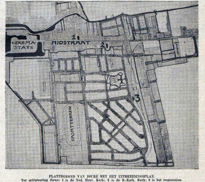 Plan for neighborhood of Blaauwhof in Joure.